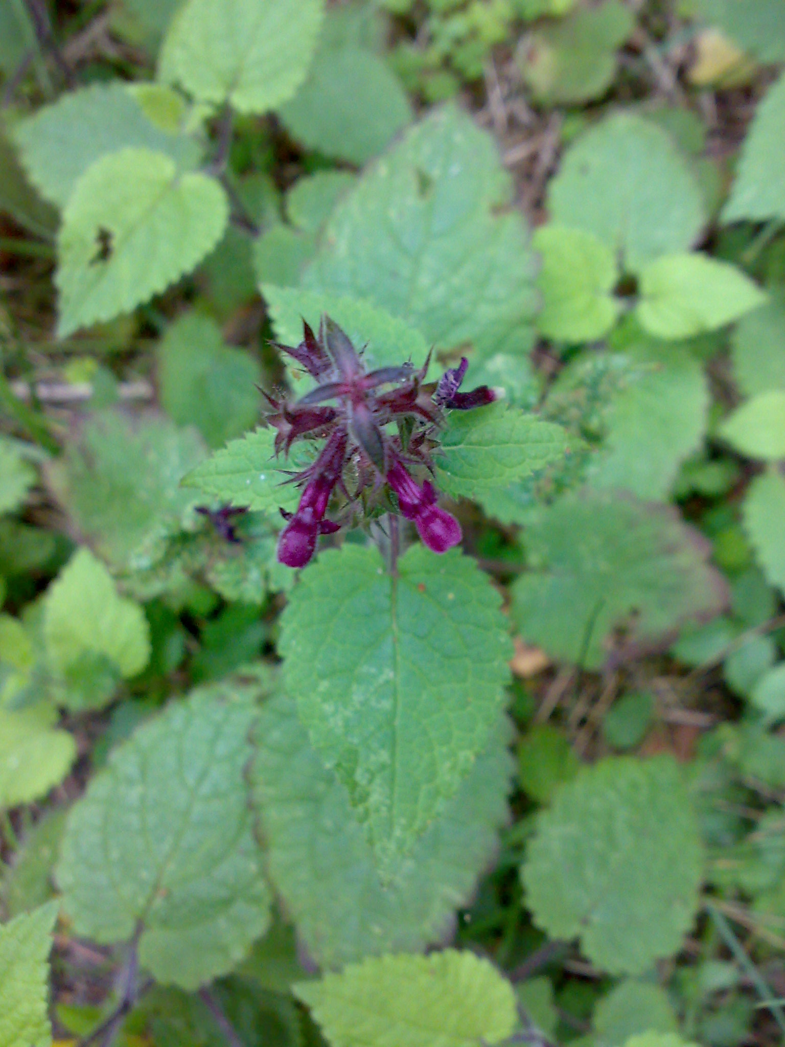 Stachys sylvatica in Hurum, Norway